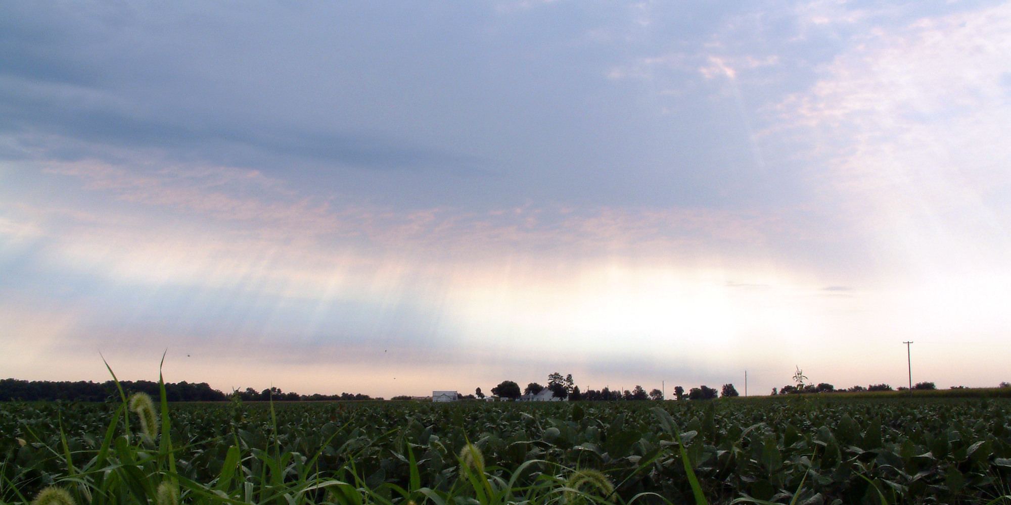 Backlit clouds with rainbow-colored fringes above a soybean field in rural Carroll County, Indiana. The photo looks east from County Road 75 West in Jackson Township, a little over a mile north of the town of Camden.